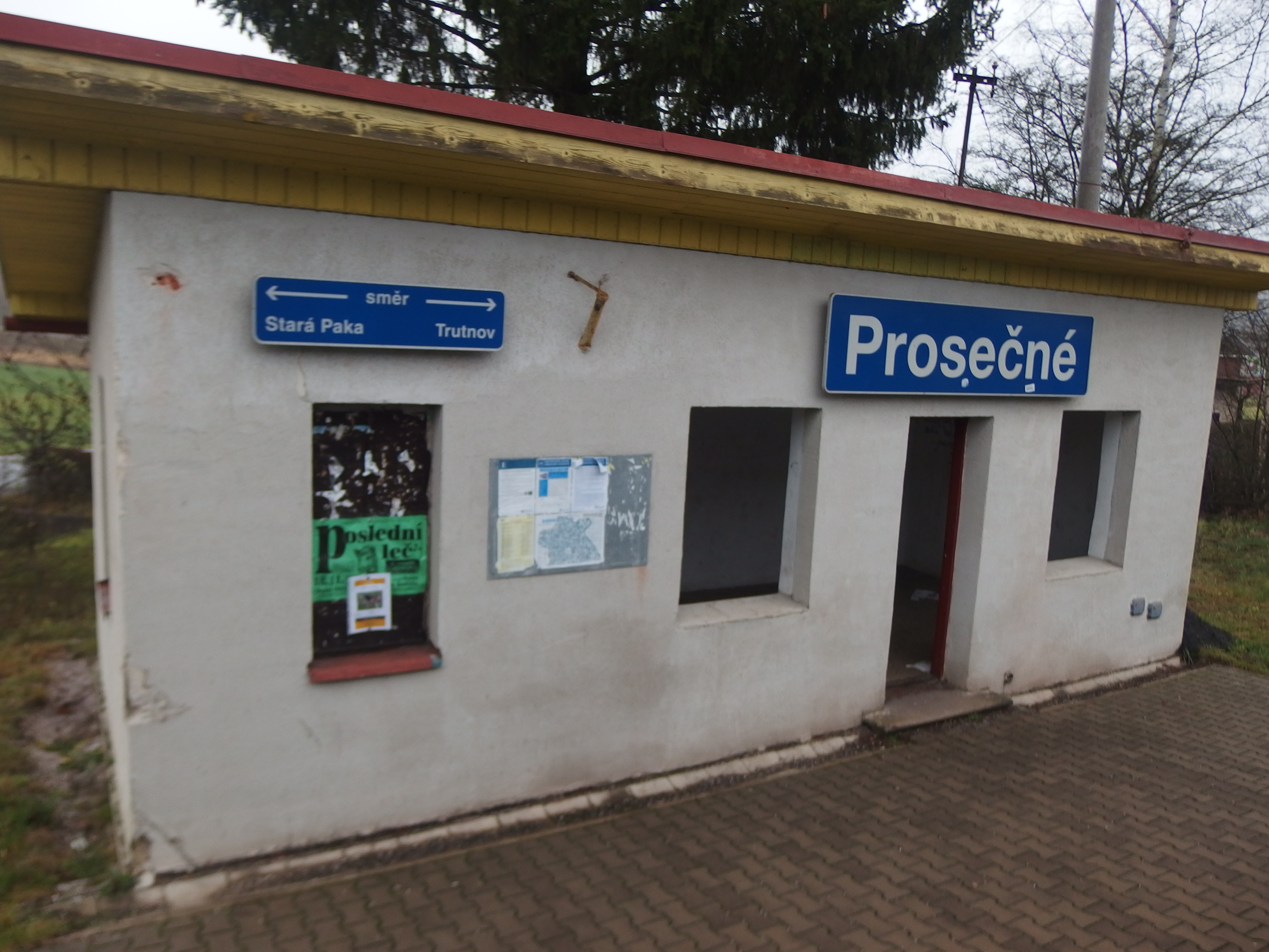 Prosečné, Trutnov District, Czech Republic.